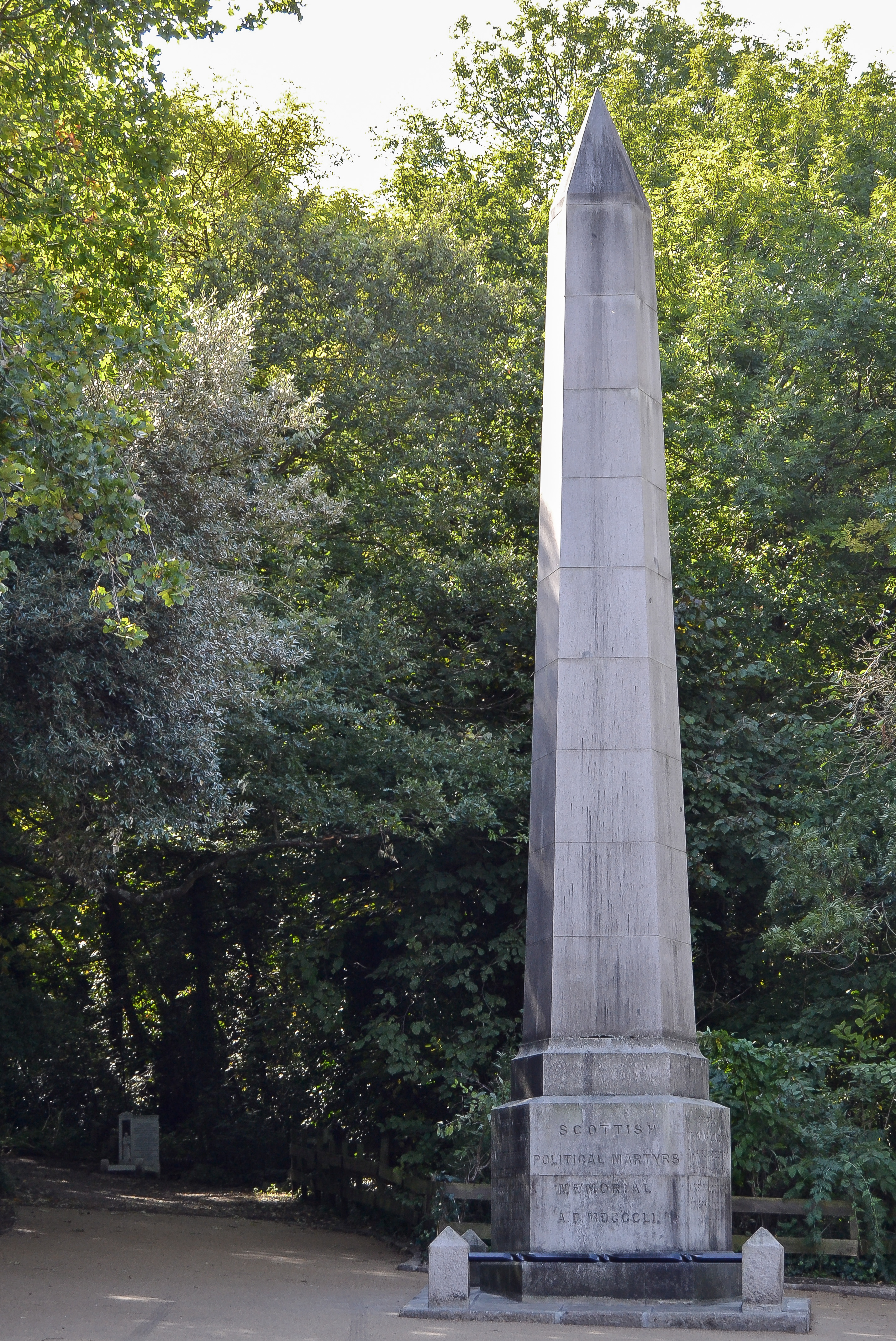 The Scottish Martyrs Memorial, Nunhead Cemetery Wikidata has entry Q26665429 with data related to this item.